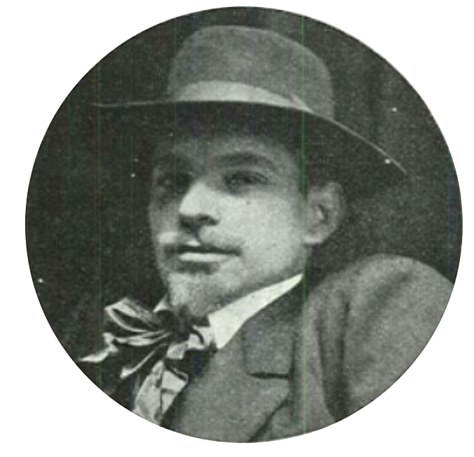 Swedish painter Nabot Törnros. Photo from the Swedish magazine Idun, 24 decemer 1908.